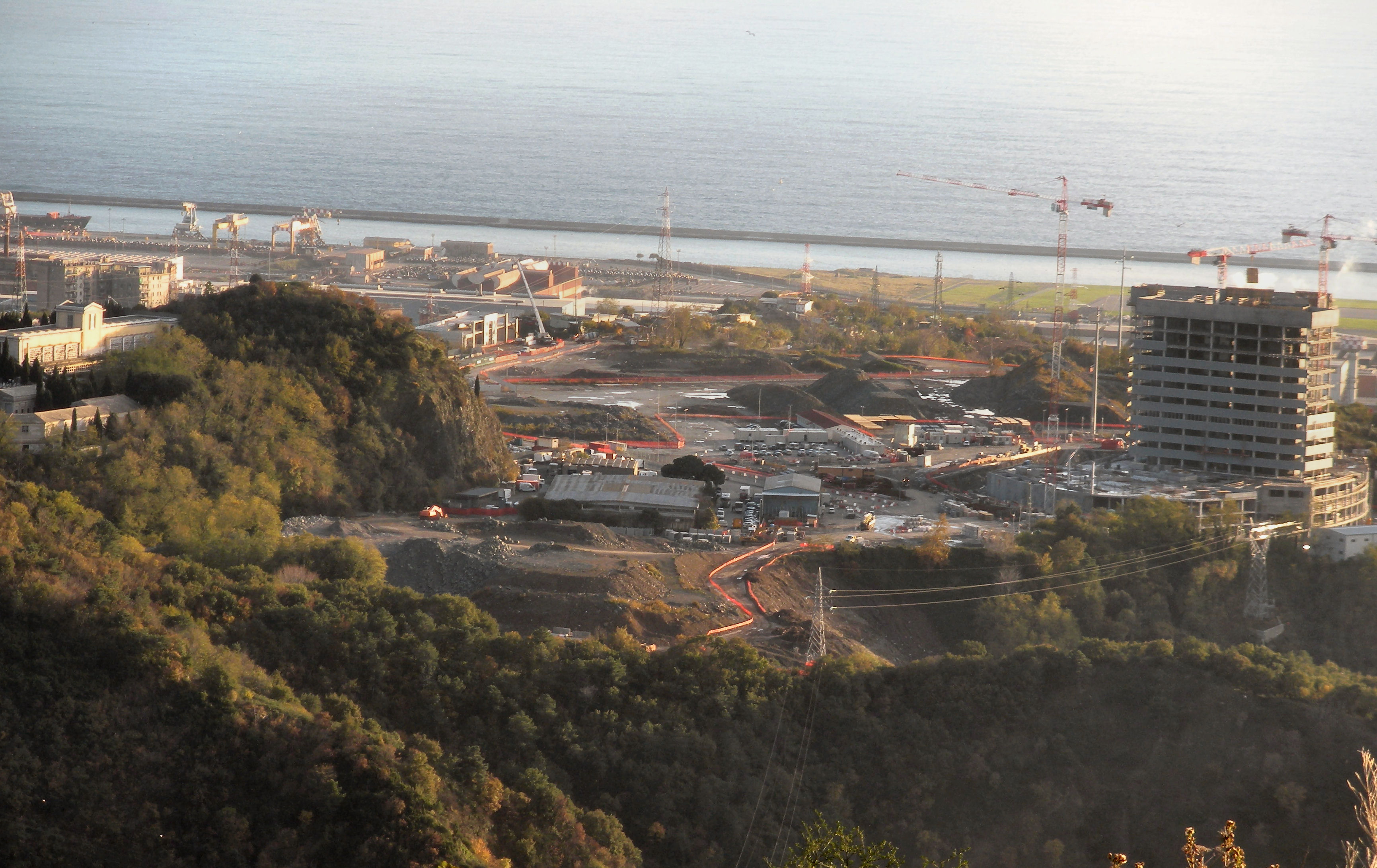 Genoa, Cornigliano (Italy). The Erzelli esplanade and the works in progress for building the new technology center (November 2010)